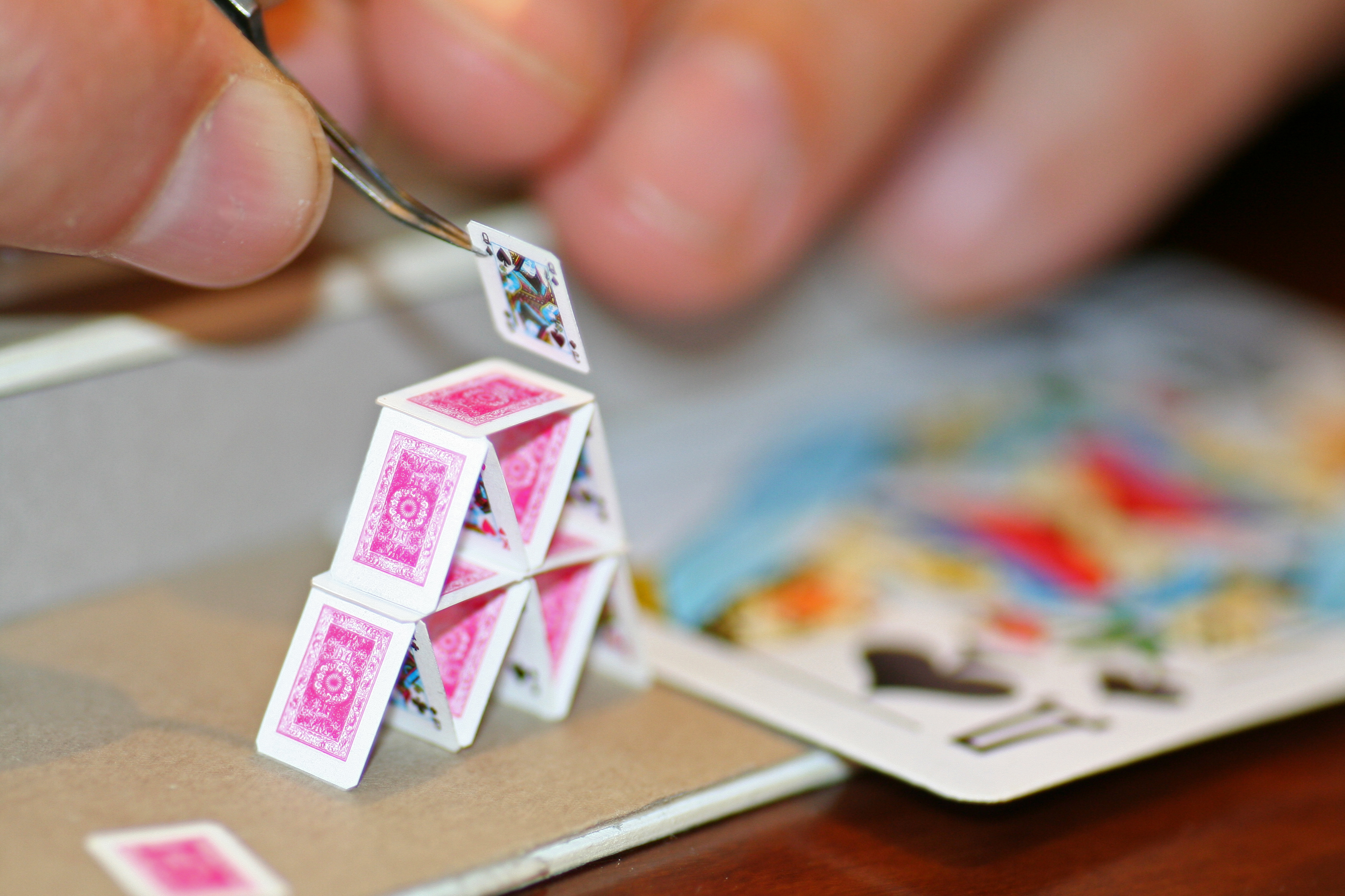 World's smallest house of cards